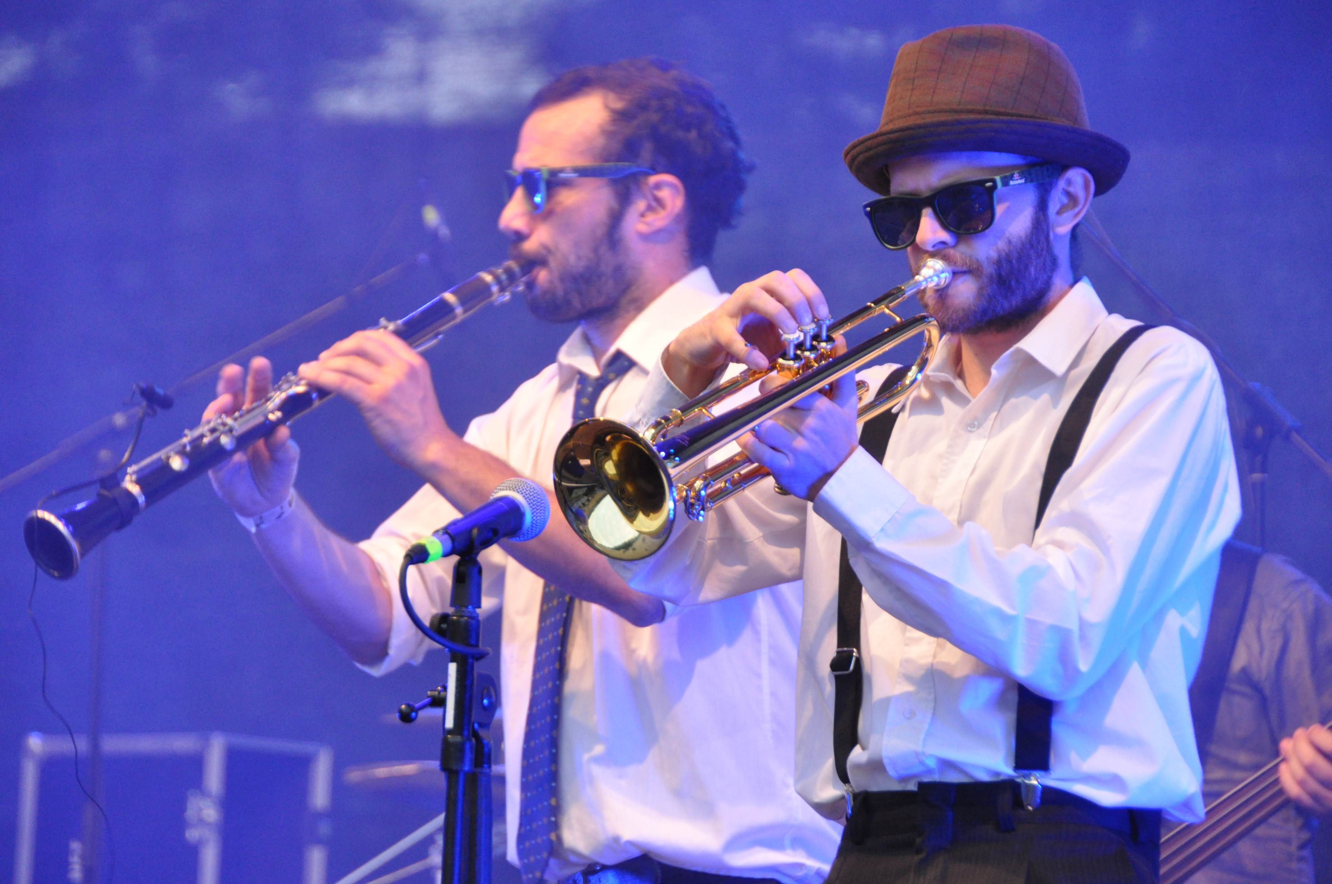 Rosario Smowing (AR), appearance at the 12th World Music Festival "Horizonte" 2014 at the fortress of Ehrenbreitstein, Koblenz (Germany)